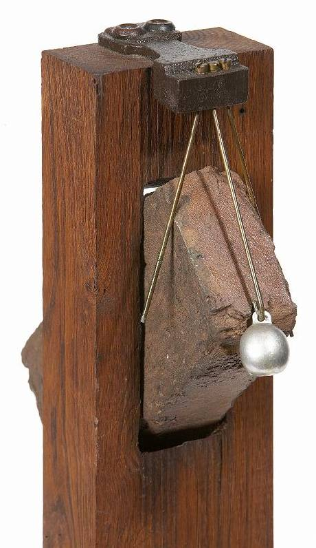 langeheroog, 2007 , wood, brick, clockwork parts, 25cm x 90cm x 30cm